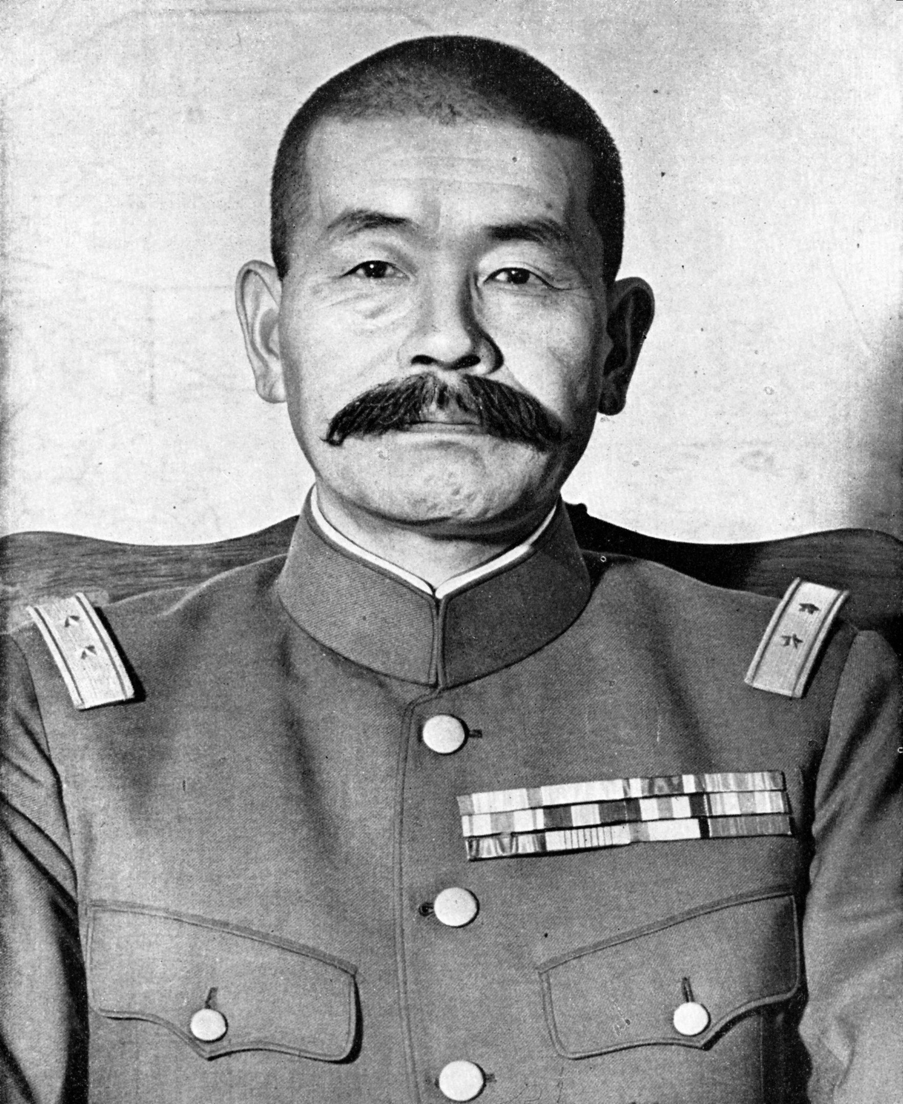 The person in the picture is Shizuichi Tanaka, a famous commander of Imperial Japanese Army in days of World War II. The source book, The Philippines Expeditionary Force, names him "Army Commander Tanaka" without further details. According to the Japanese Wikipedia article on "Japanese Army uniform", he is wearing a Showa 5 type or M90 uniform with the epaulette of lieutenant-general. Therefore, this picture should be considered to be taken between July 1938 to September 1943.